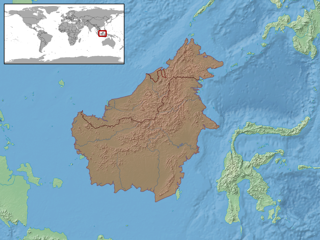 geographic distribution of Calamaria everetti (Native: Indonesia (Kalimantan); Malaysia (Sabah, Sarawak))